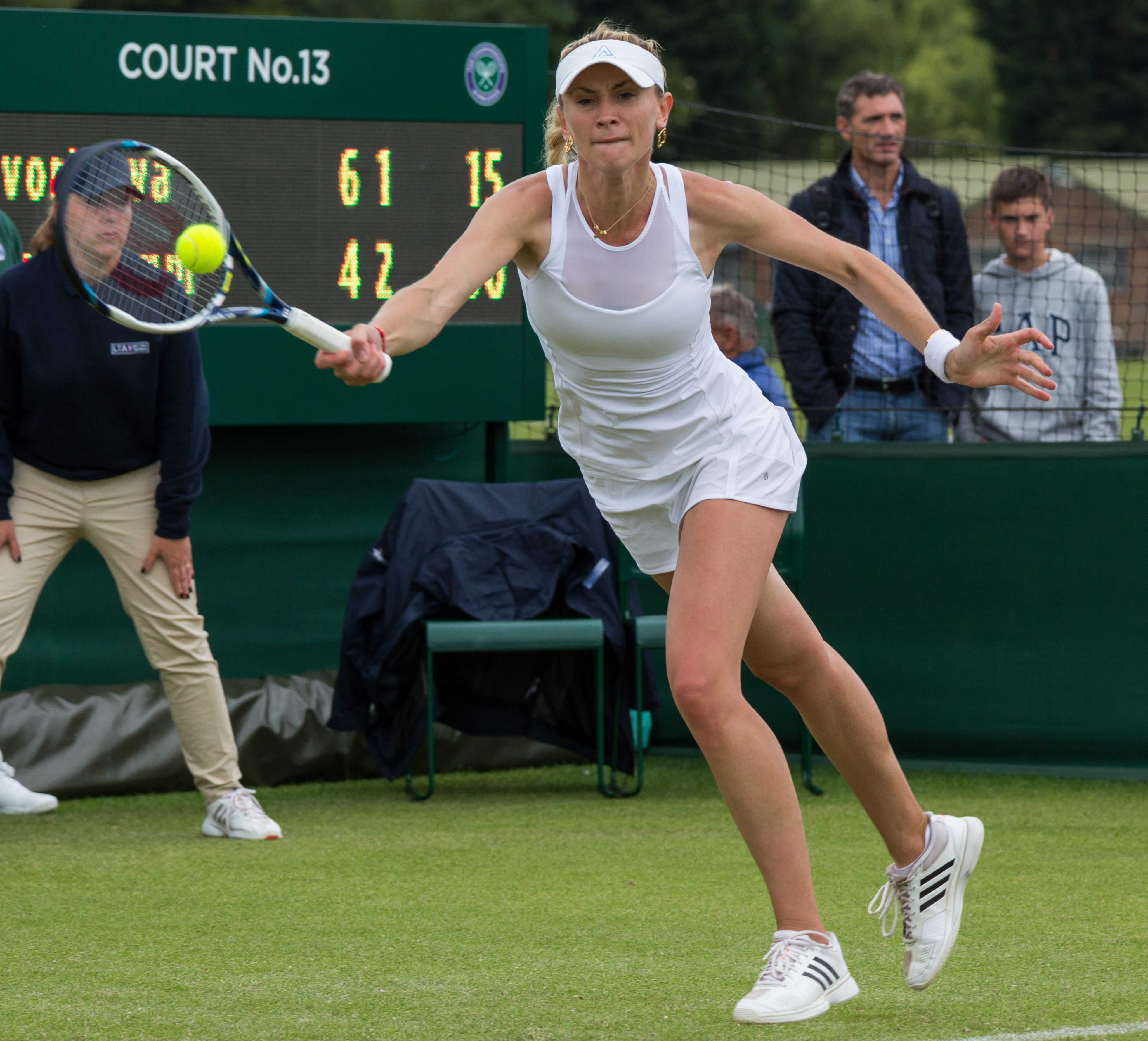 Olga Govortsova competing in the first round of the 2015 Wimbledon Qualifying Tournament at the Bank of England Sports Grounds in Roehampton, England. The winners of three rounds of competition qualify for the main draw of Wimbledon the following week.